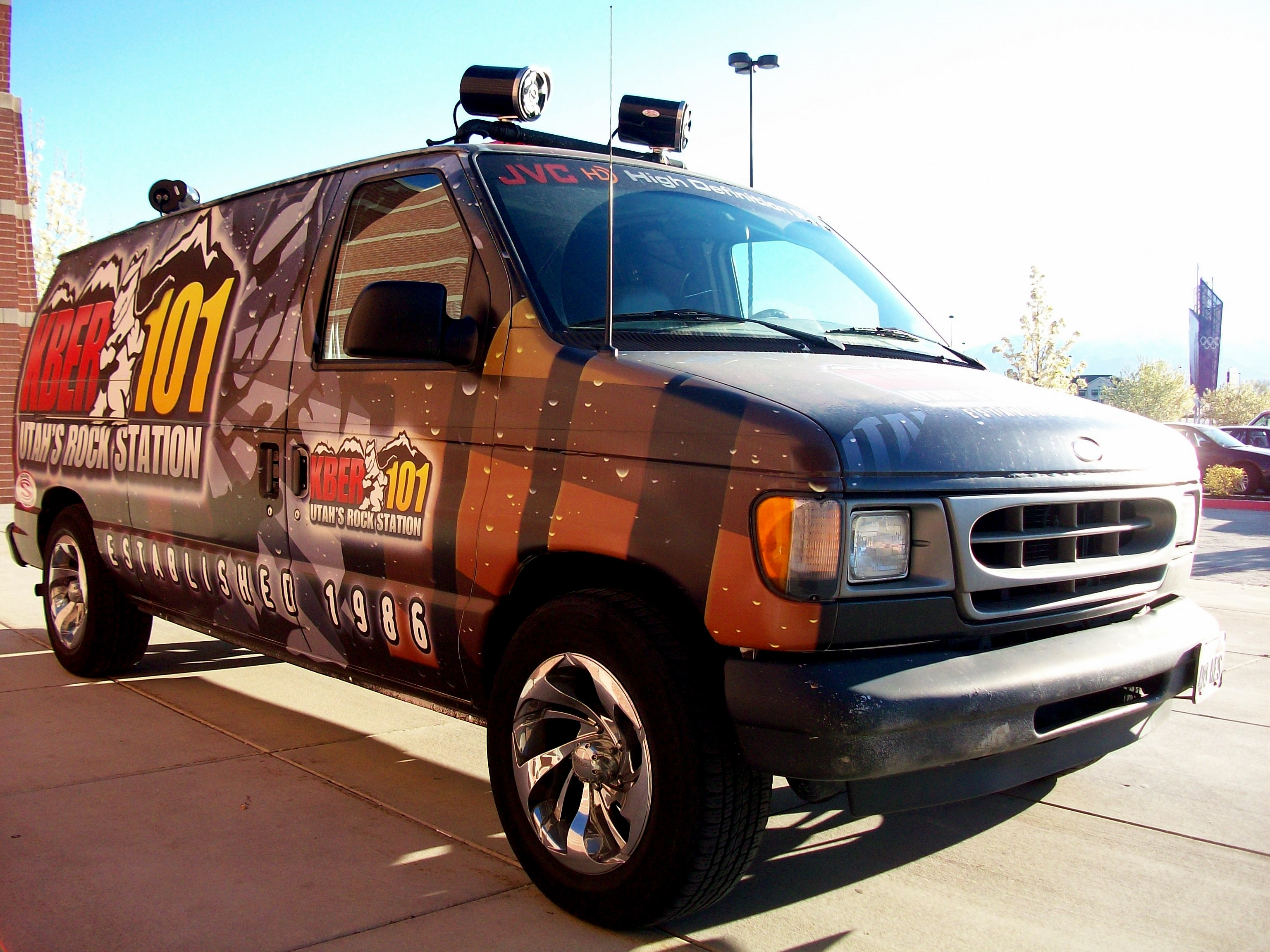 The KBER (101.1 FM Salt Lake City) Van, used for remote broadcasts and promotional events. Taken in front of the Carmike Hollywood Connection Cinema in West Valley City, Utah.